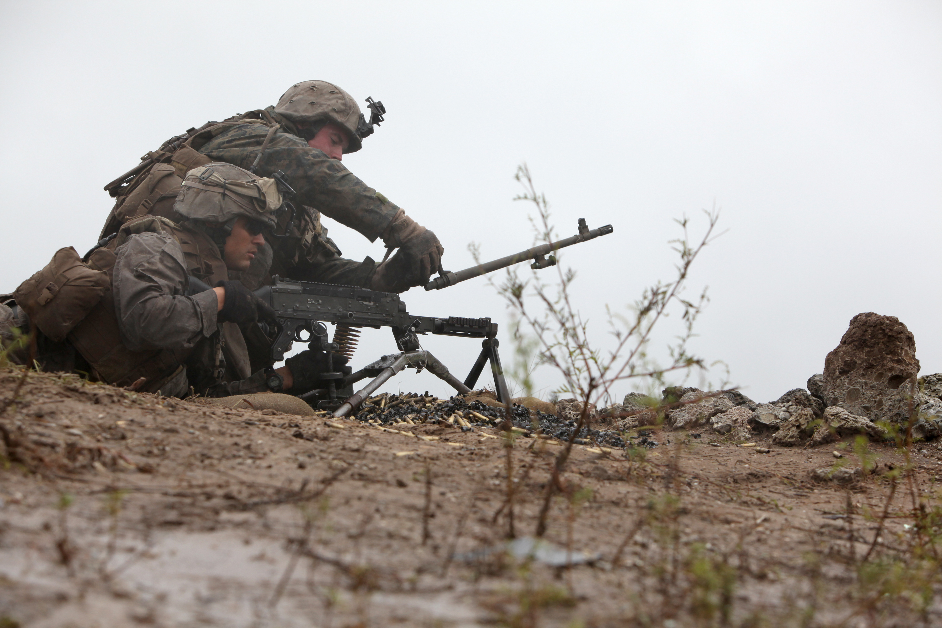 MARINE CORPS BASE CAMP LEJEUNE, N.C. - An assistant machine gunner with 2nd Battalion, 2nd Marine Regiment, removes and replaces a hot barrel on an M-240B machine gun during a live fire exercise aboard Camp Lejeune, N.C., Sept. 29, 2010. Companies Echo, Fox and Golf, spent several rainy days reiterating and advancing machine gun skills by shooting the M-240B medium machine gun, the M-2 heavy machine gun and the MK-19 40mm automatic grenade launcher. (Official Marine Corps by Cpl. Justin M. Martinez)